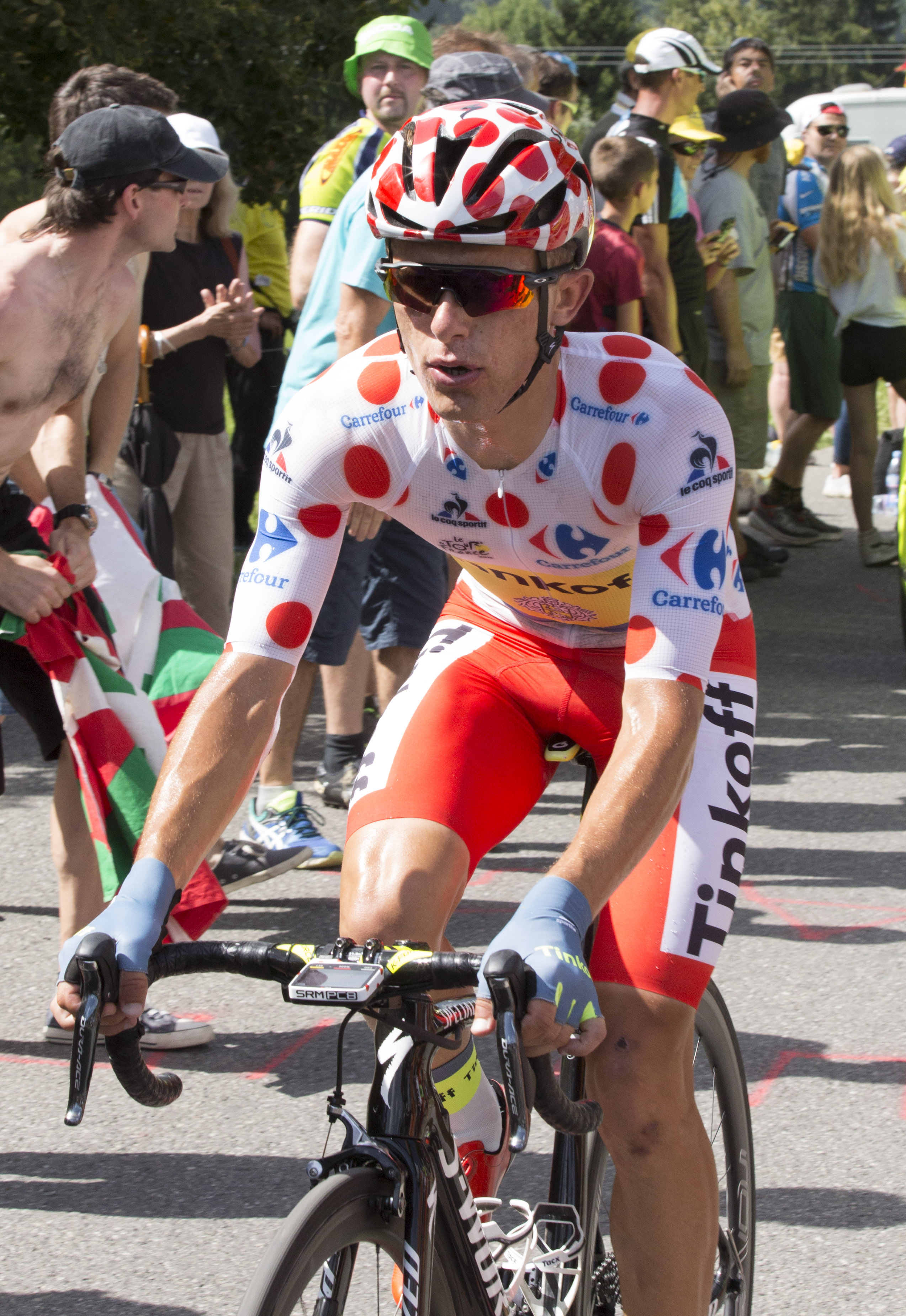 Stage 18 - Sallanches to Megève